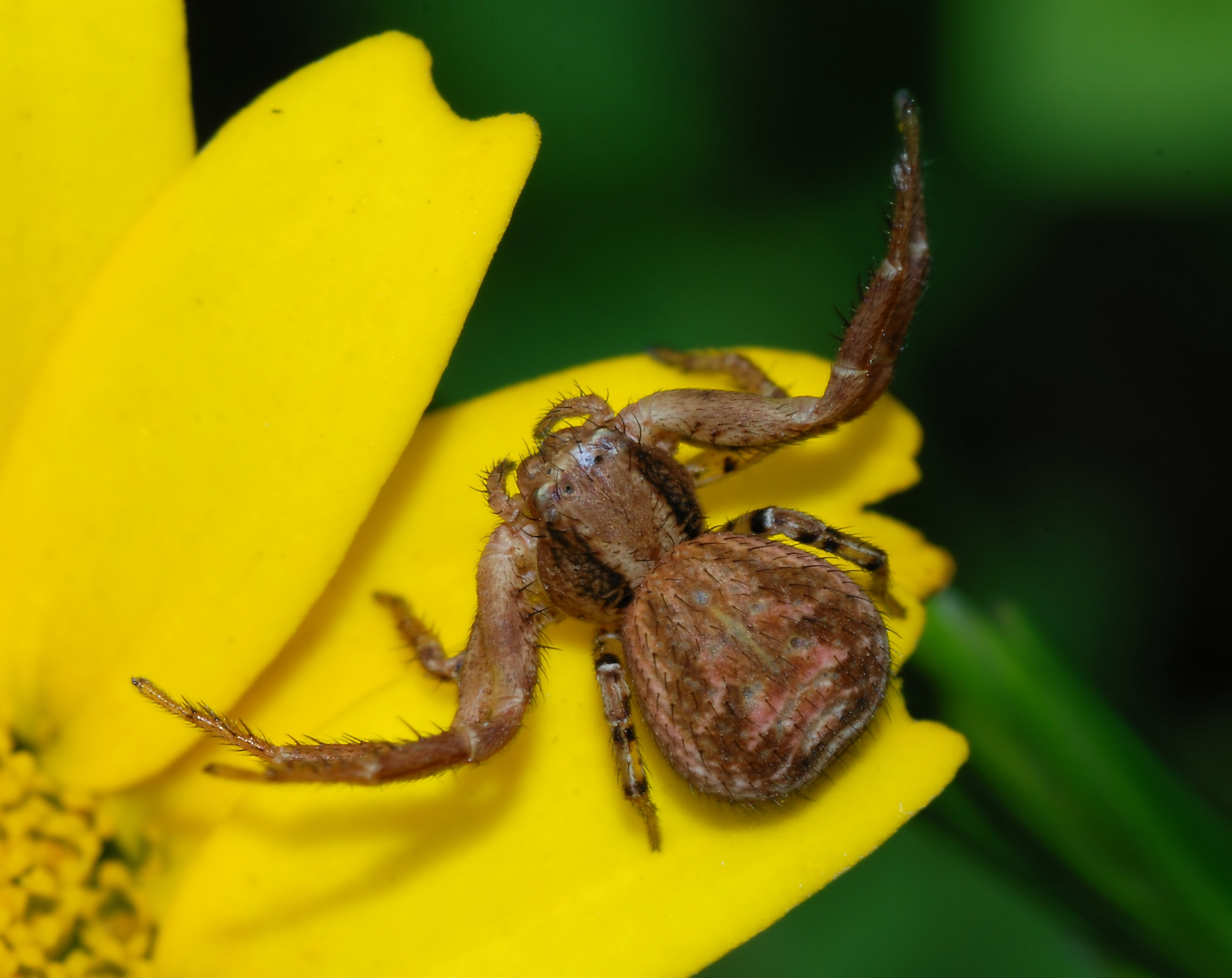 A Xysticus sp. spider waiting for prey